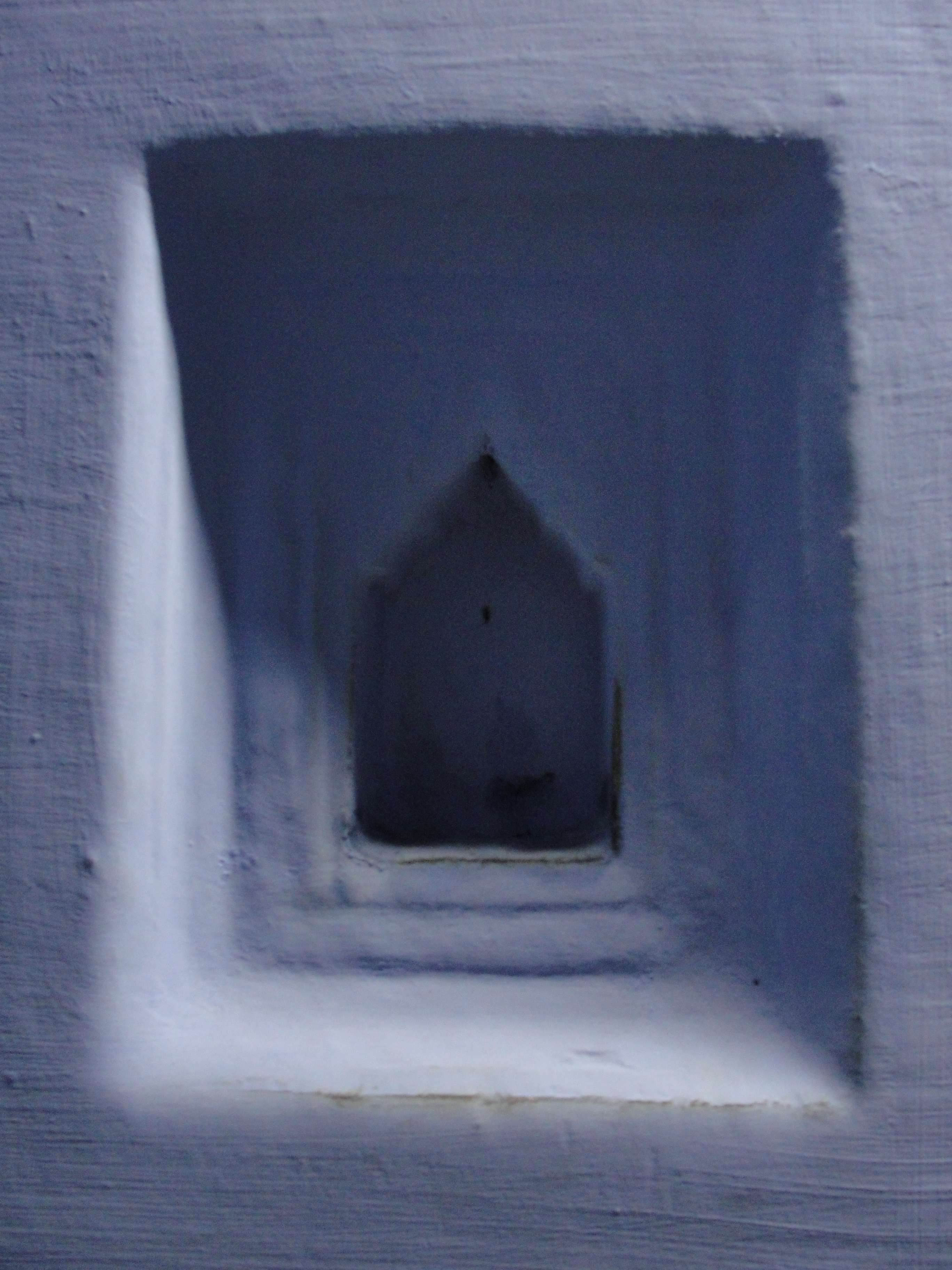 MantlepieceUnknown விளக்கு மாடம்